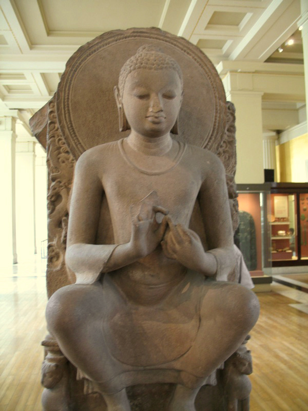 The Buddha Sarnath, Uttar Pradesh About 5th-6th century AD The Buddha sits in 'European Posture' on a lion throne, his feet supported by a double lotus. His hands before his chest appear in the dharmachakramudra, the gesture associated with his First Sermon at Sarnath outside Benares in which he elucidated his doctrine, described as 'setting in motion the Wheel of the Law'.